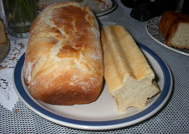 Two loaves of pain de mie. The loaf at right was baked in a star-shaped pan. Pain de mie is a type of sliced, packaged bread. "Pain" in French means "bread" or "loaf of bread" and "mie" means "crumb." The taste is somewhat sweeter than typical French bread, but not as sweet as typical American sliced white sandwich bread.